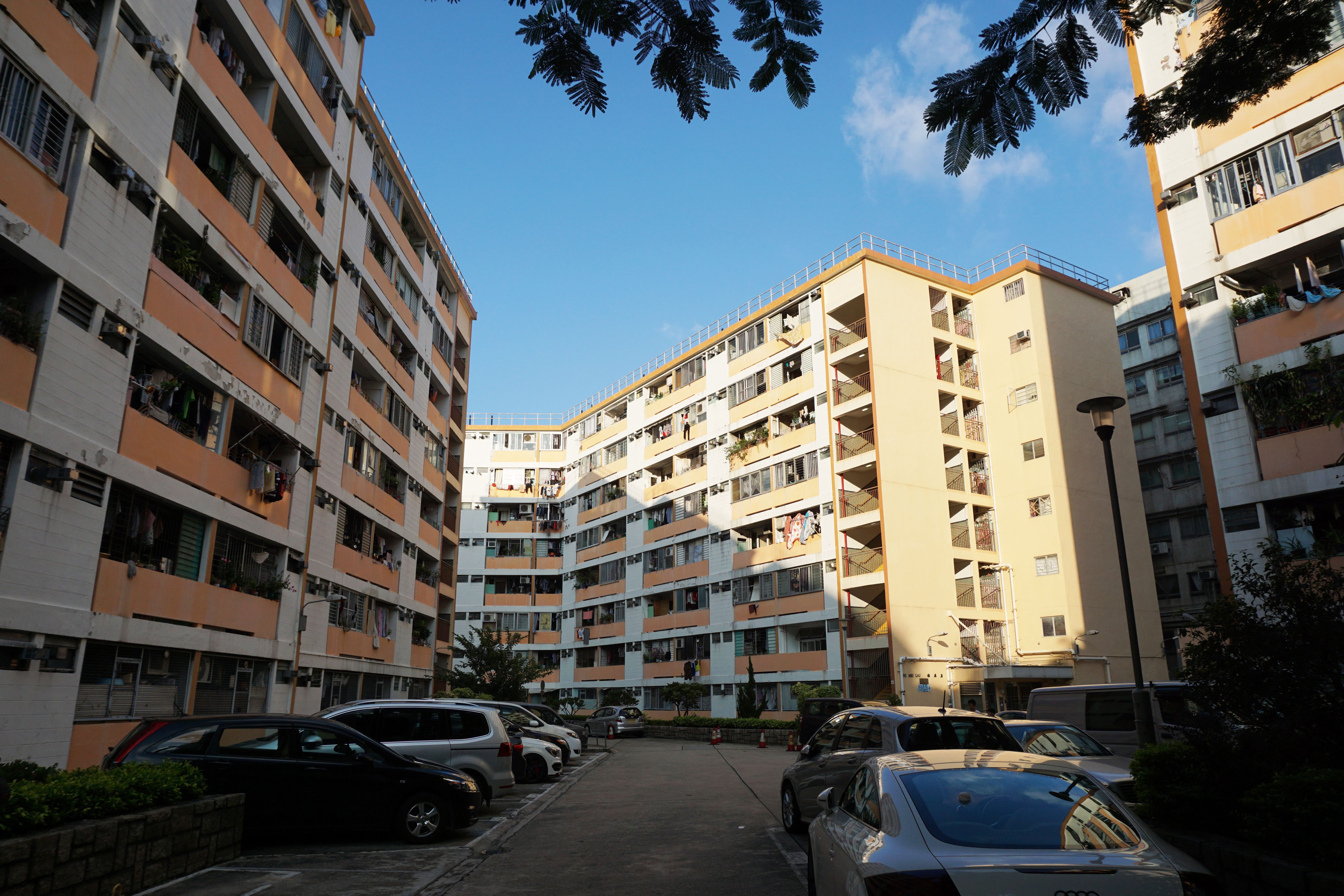 Chun Seen Mei Chuen in To Kwa Wan, Hong Kong.